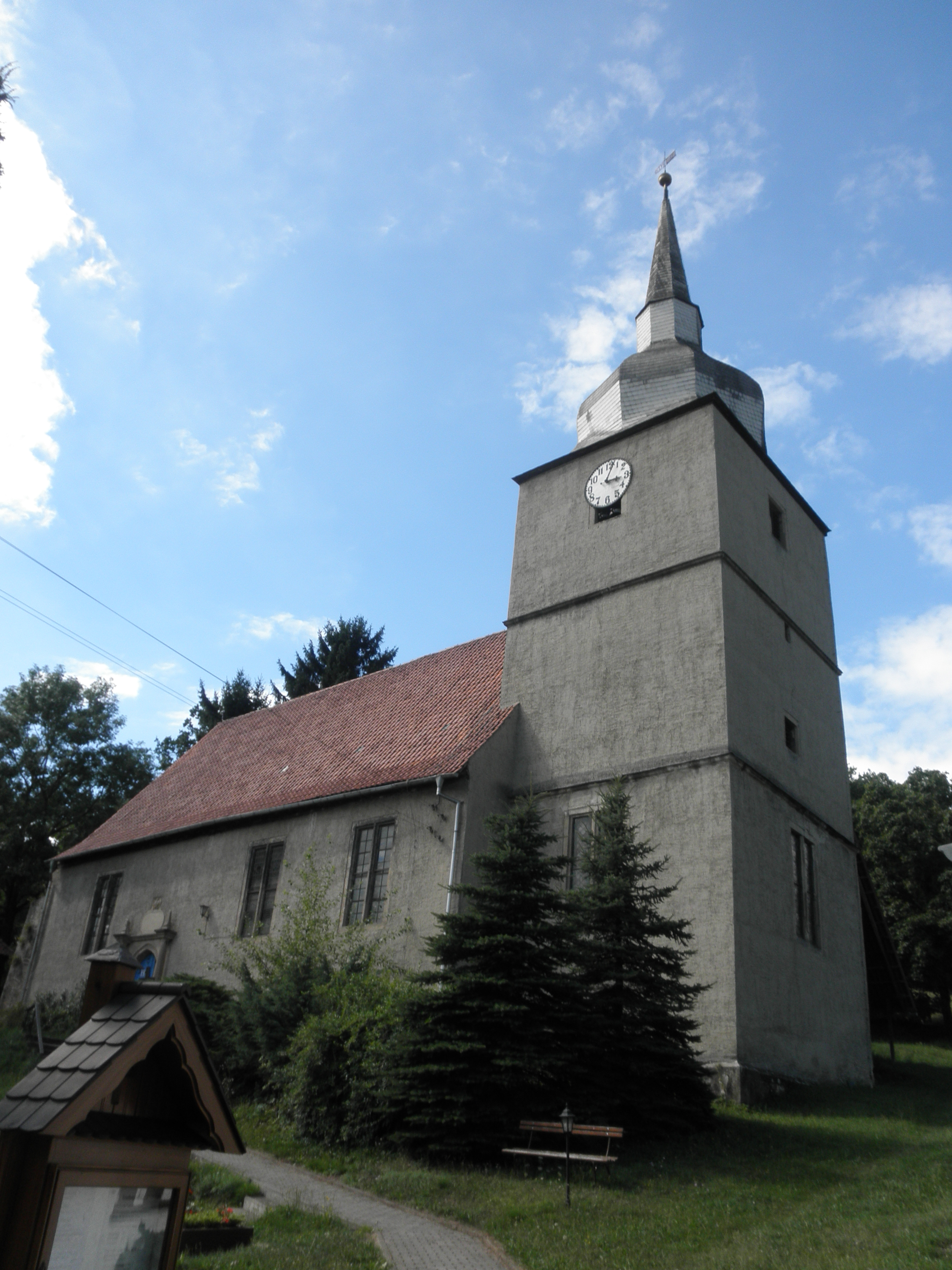 Church in Ottendorf (Thüringen) in Thuringia